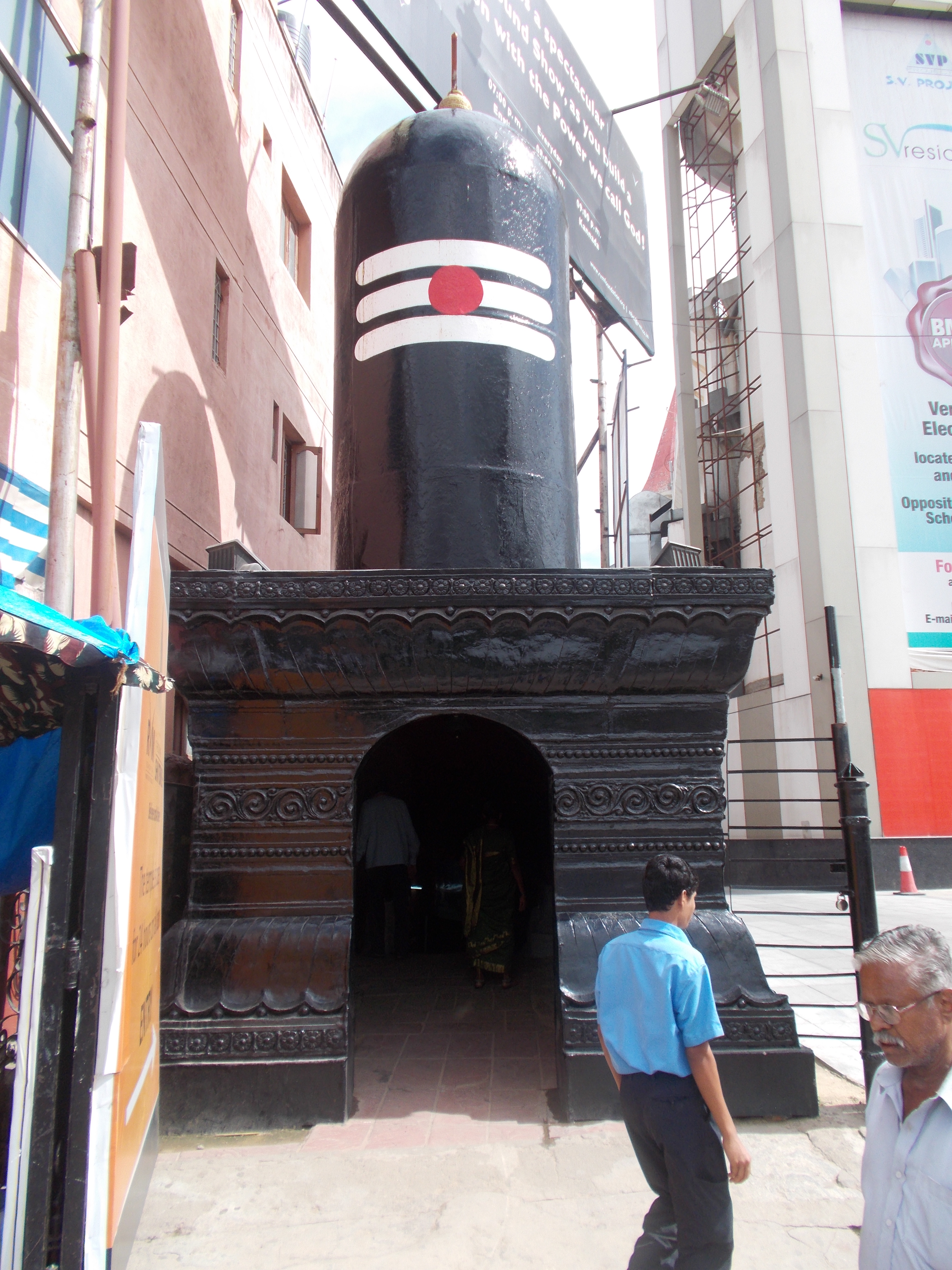 Lord Shiva's temple in the shape of Shiva Linga beside Kemp Fort (now Total Mall) on Old Airport Road